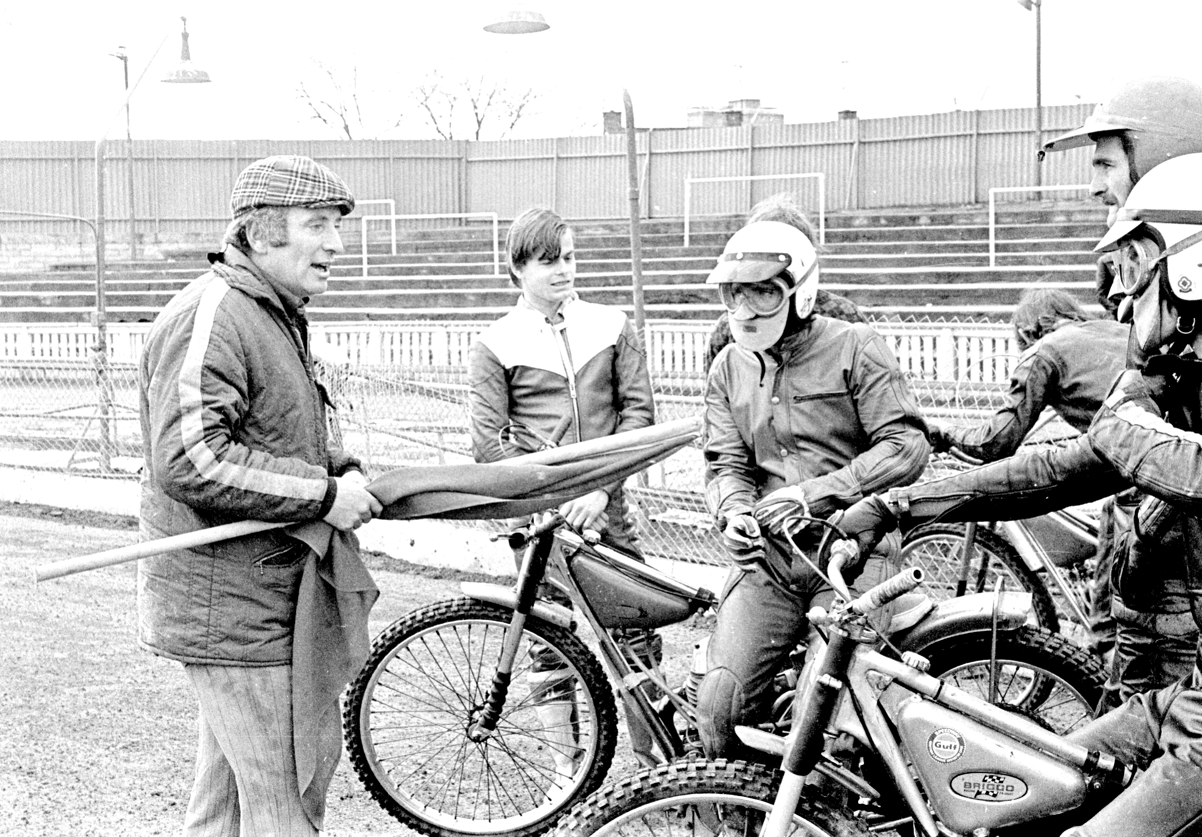 Speedway rider Pete Jarman passes on his knowledge to novices